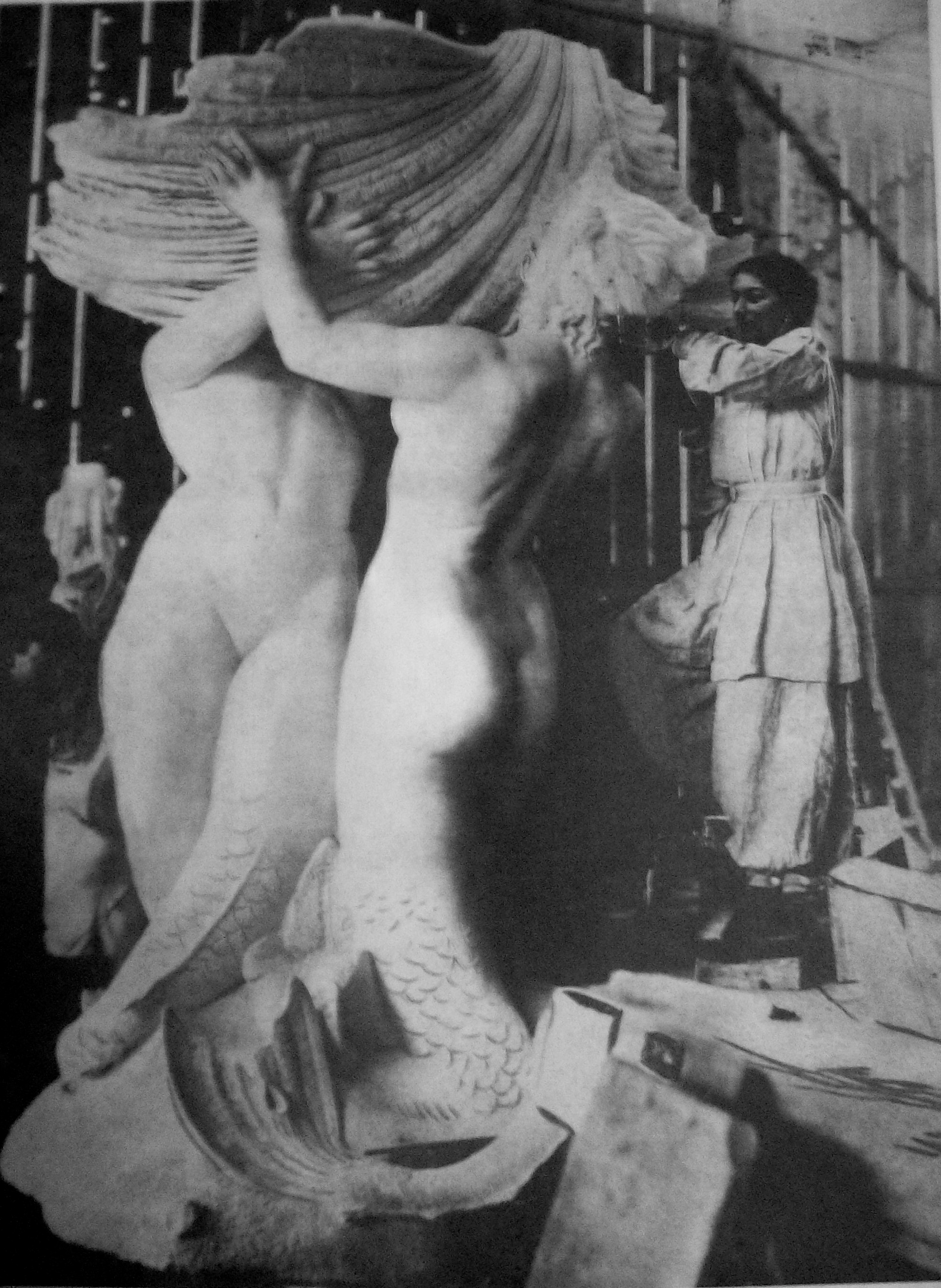 Argentine sculptress Lola Mora working on La Fuente de las Nereidas, her most famous artwork. Mora's studio was on Paseo de julio (current Leandro N. Alem) avenue of Buenos Aires.